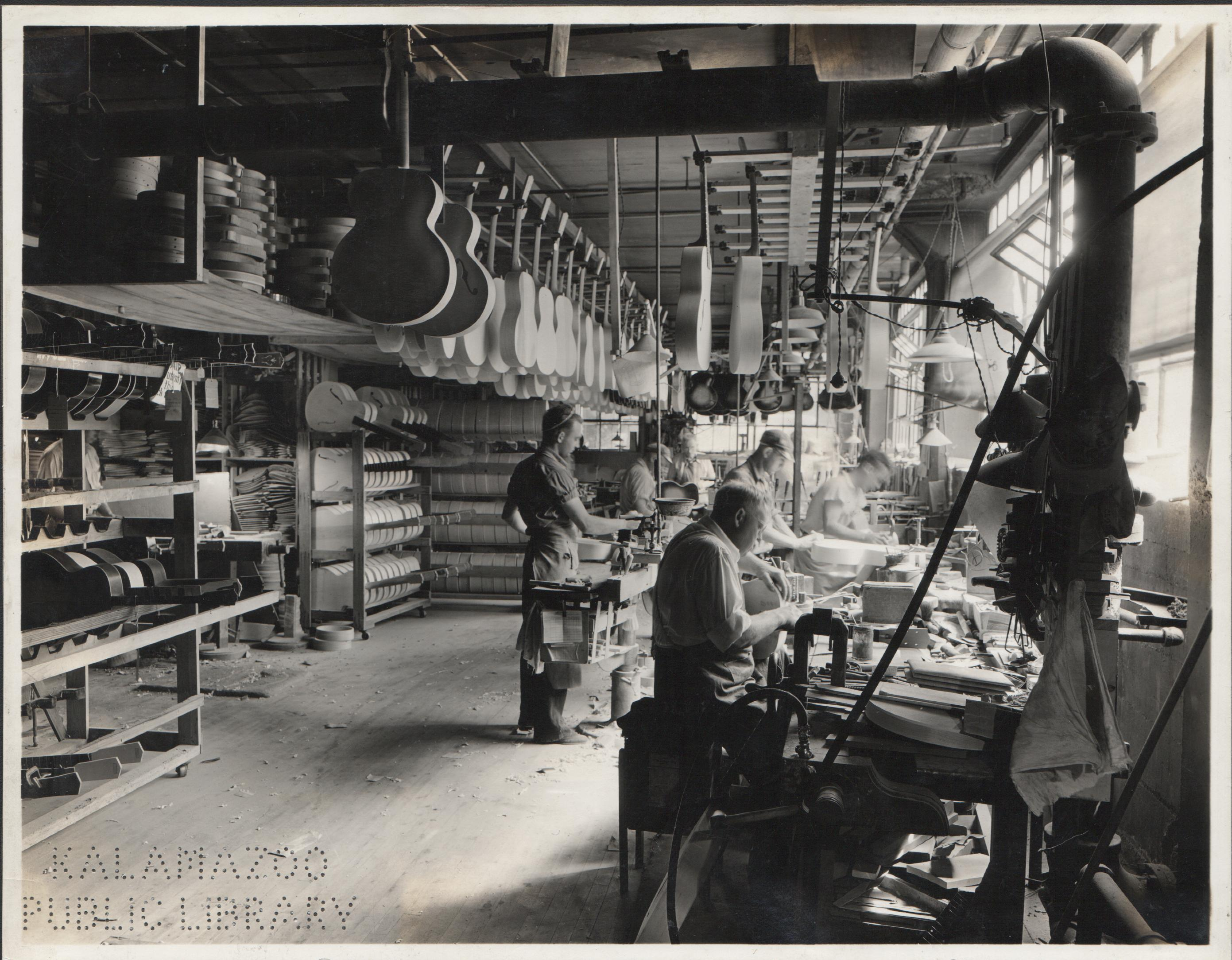 Interior of Gibson, Inc. factory. Several unidentified men at the work benches. Many guitars stacked on wheel racks and hanging from the ceiling.